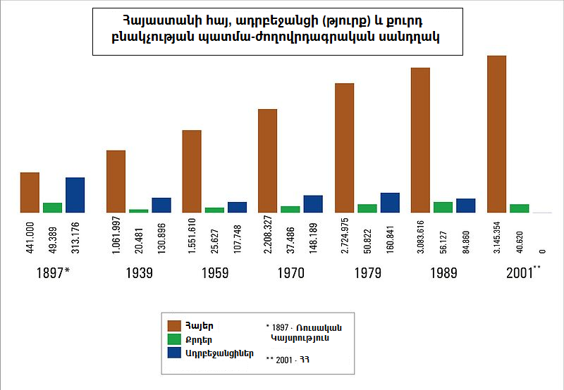 Comparison table of armenian azeri kurdish population of armenia